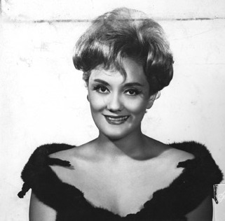 Paula Gales- actriz y cantante argentina